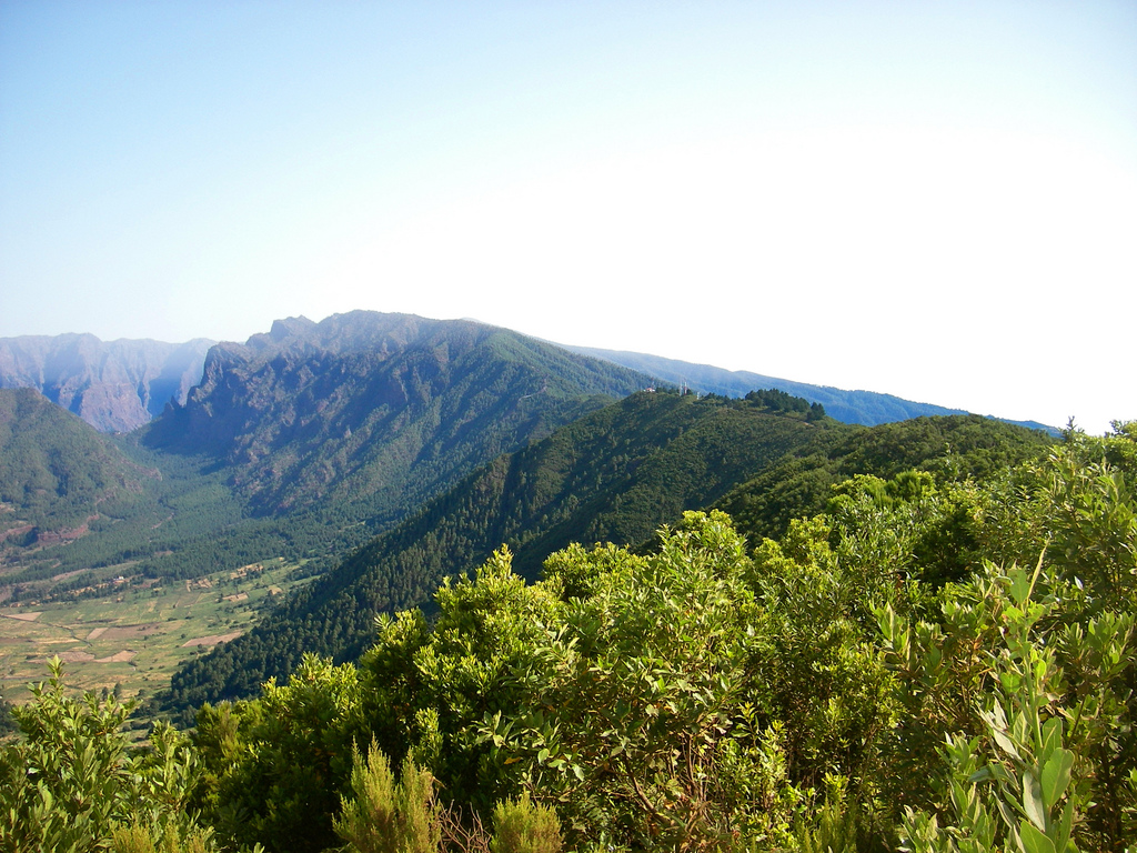 Fotografía desde donde se ve la dorsal de la Isla de La Palma.